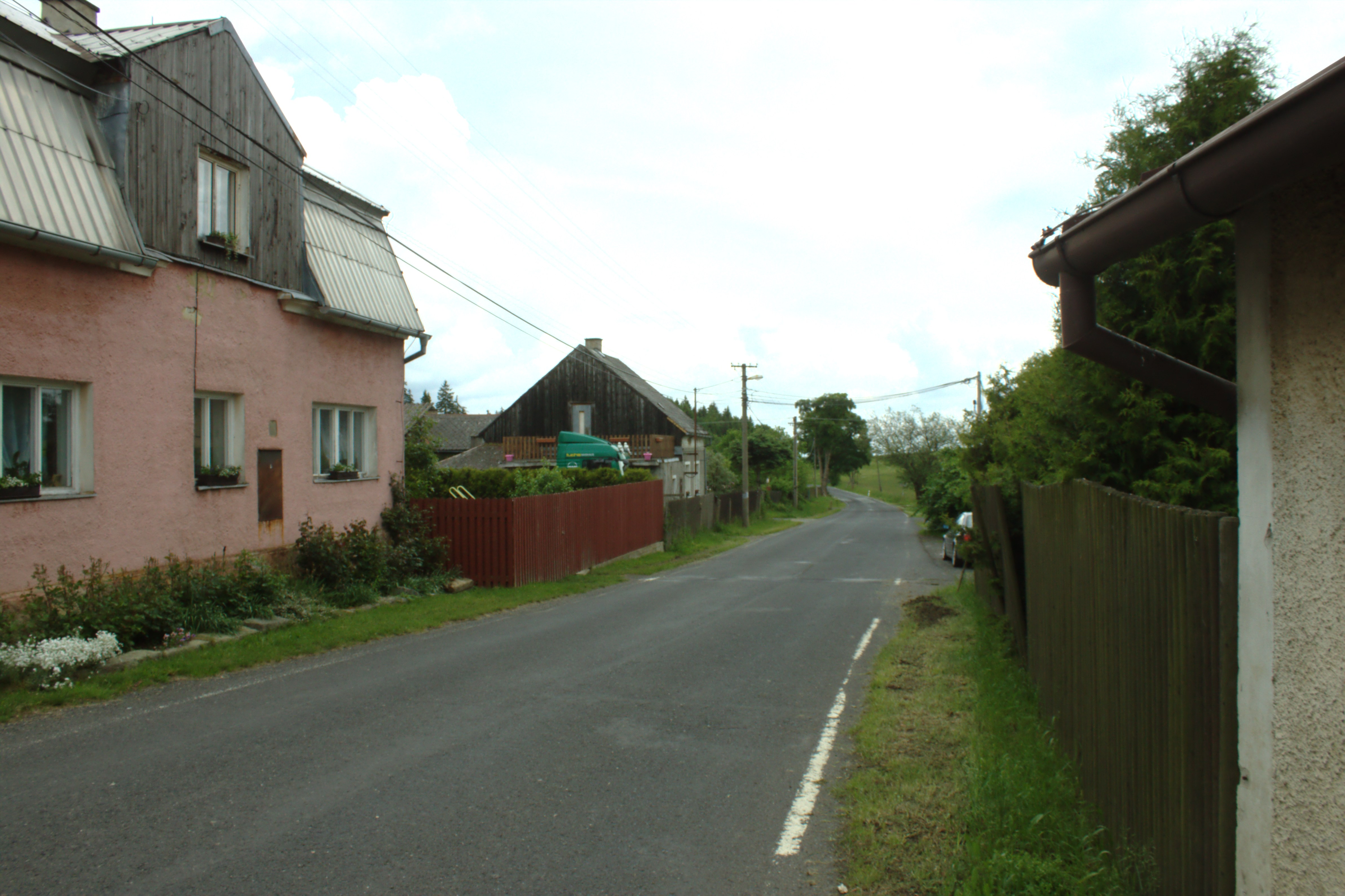 Buildings next to the main road in Heřmanov, Karlovy Vary Region, CZ